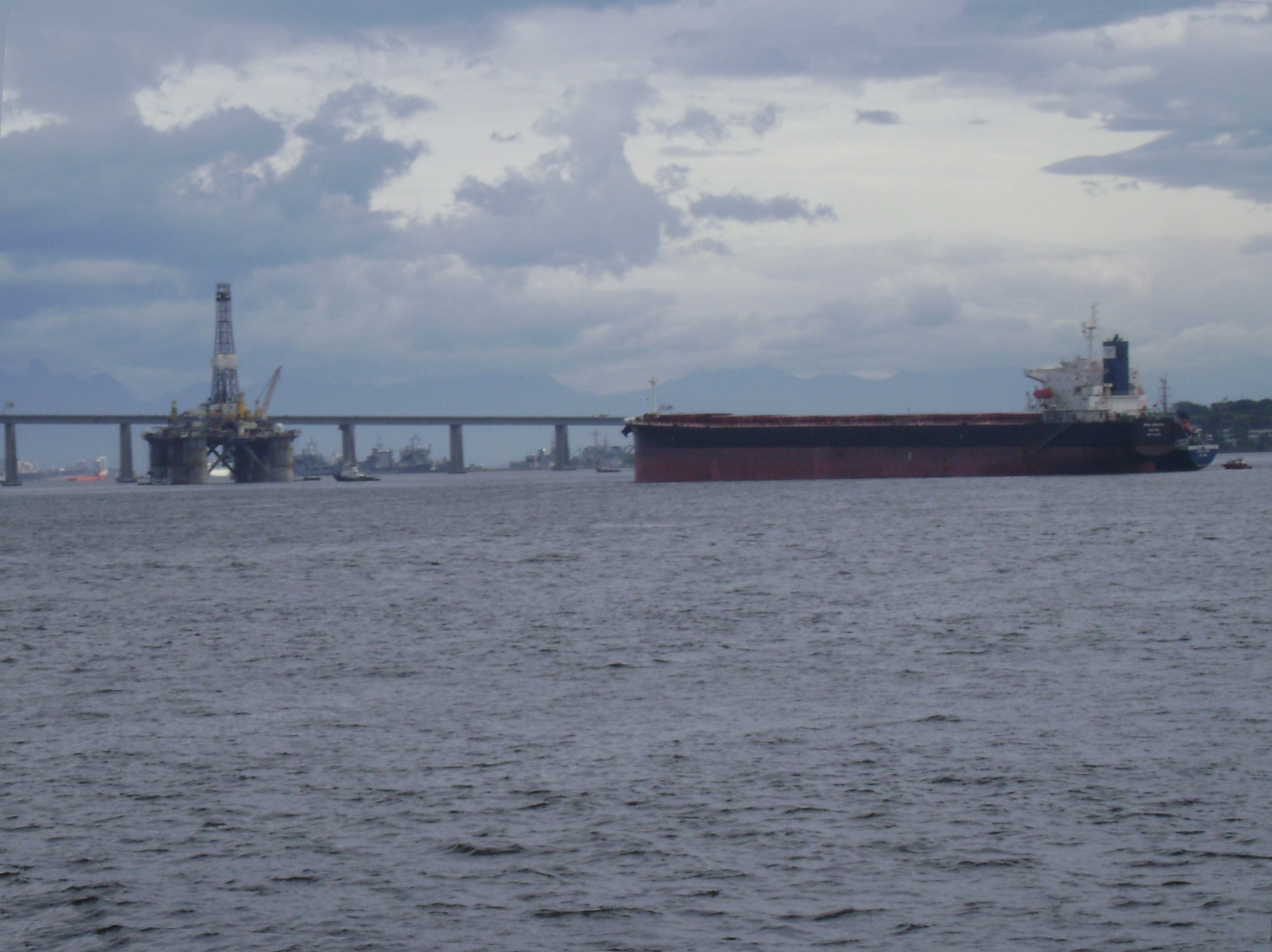 Oil platform and tanker at Guanabara bay, seen from a ferry